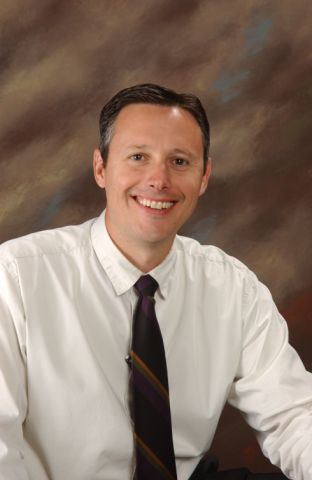 Employee picture of Stephen C. Smith.